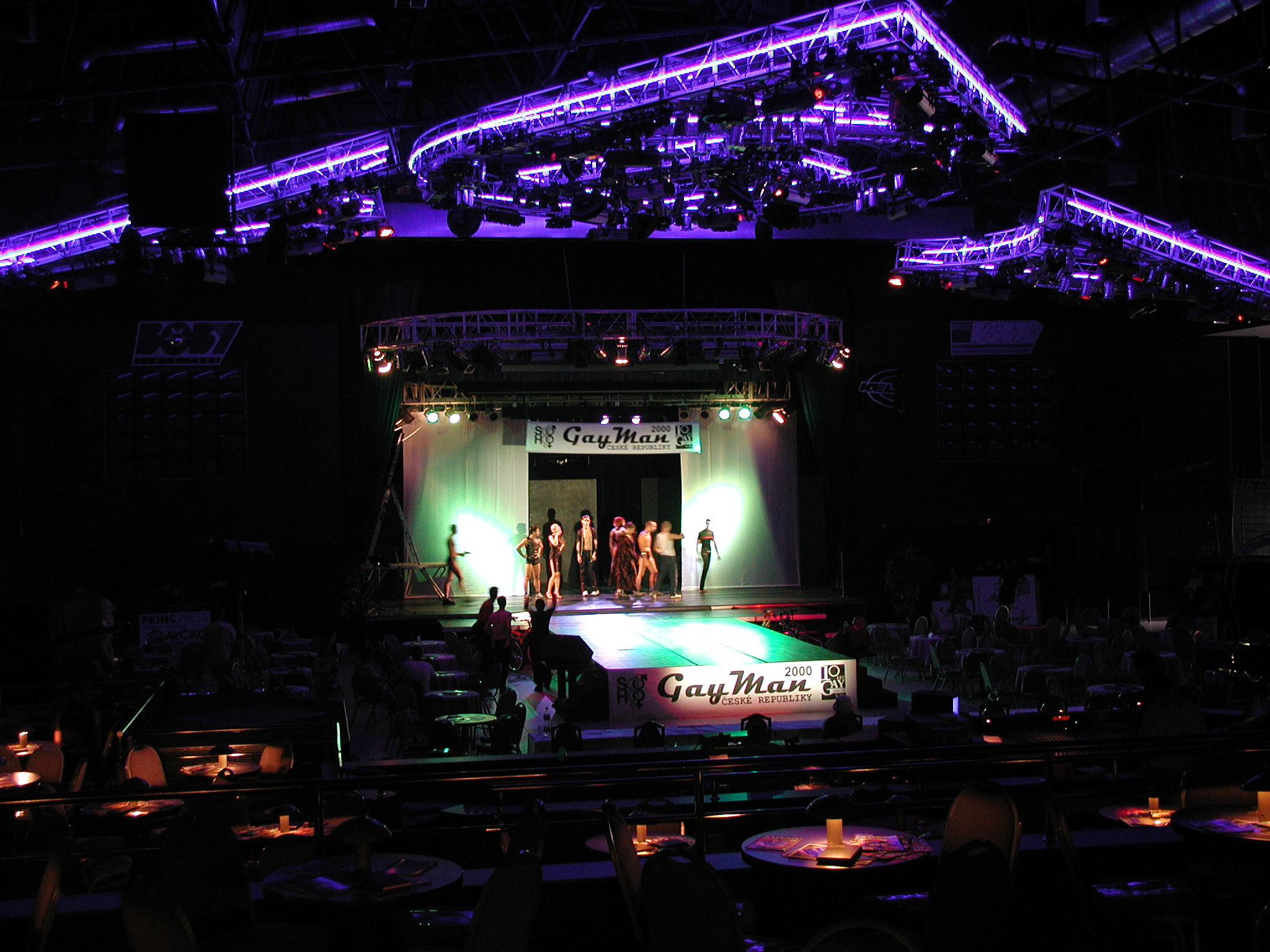 Gay Man of Czech Republic 2000. Final gala night. Brno: Laser Show Hall, Boby centrum